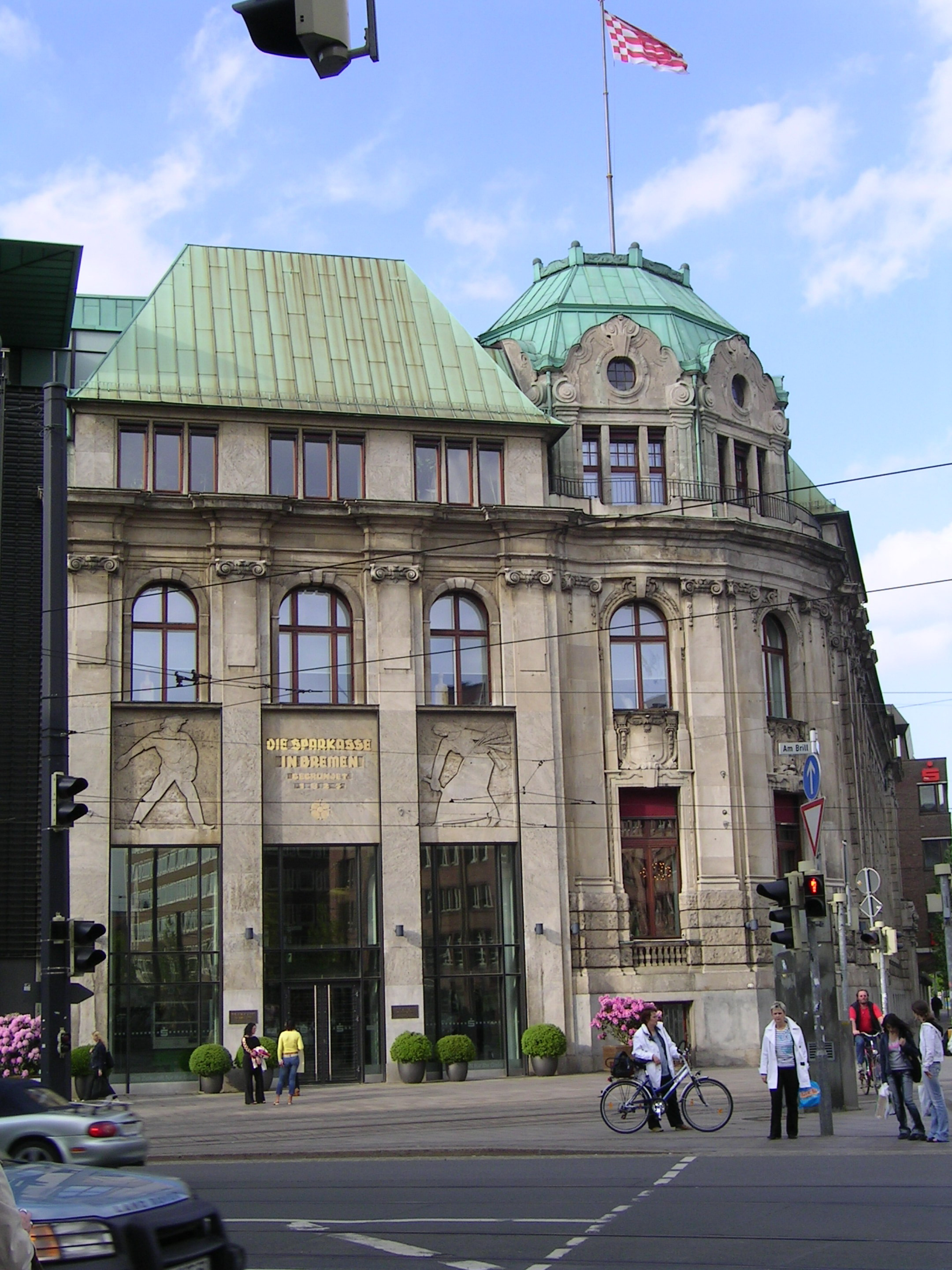 information plate Sparkasse, Am brill, Bremen User:Tarawneh/rami